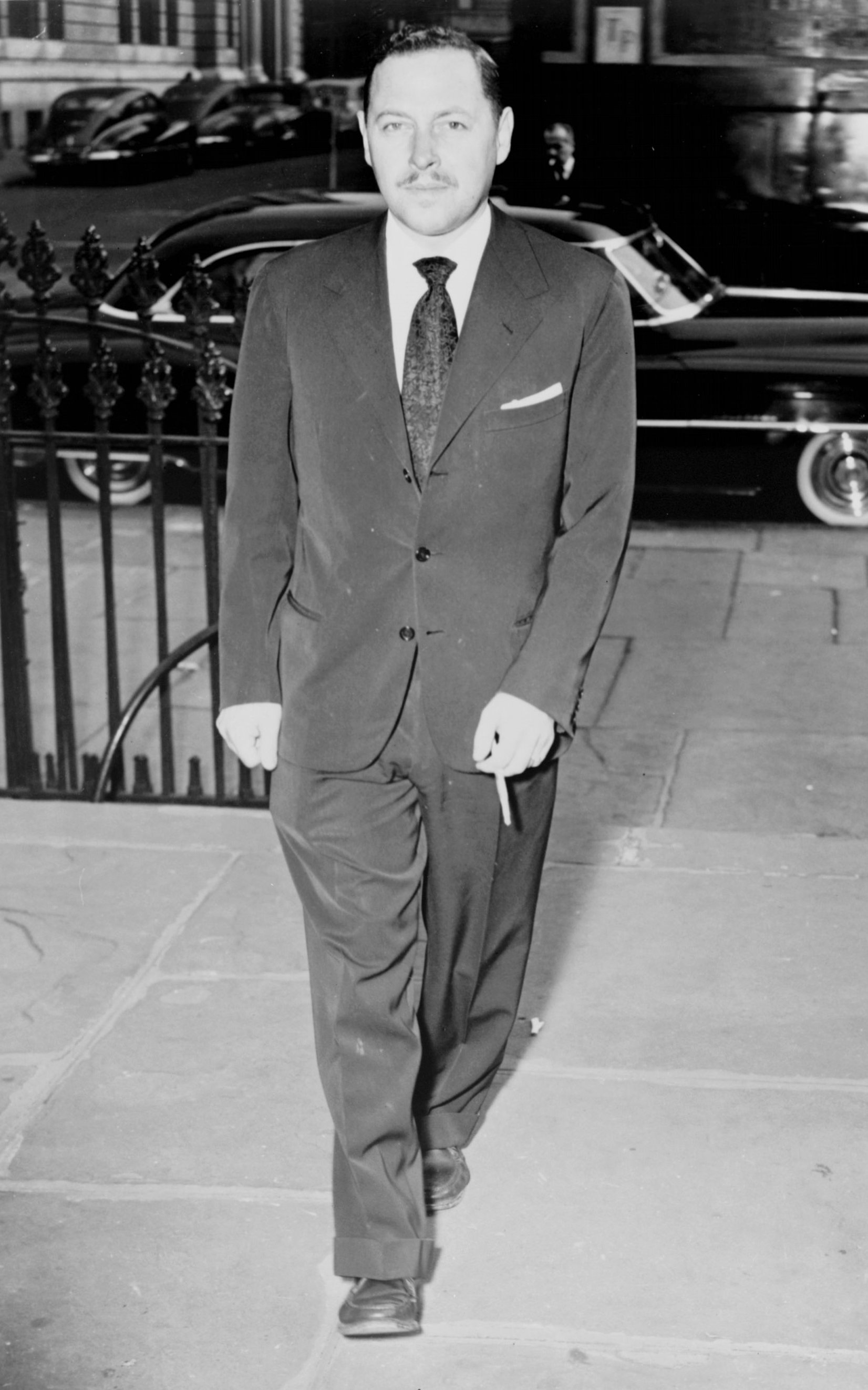 Tennessee Williams, full-length portrait, walking, at service for Dylan Thomas, facing front / World Telegram & Sun photo by Walter Albertin.